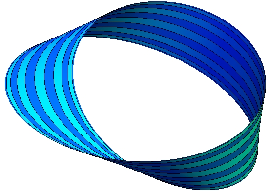 A mobios strip created by Mathematica, source code: ParametricPlot3D[{Cos[x] + 0.5 Sin[x/2] Cos[y], Sin[x], 0.5 Cos[x/2] Cos[y]}, {x, 0, 2 Pi}, {y, 0, Pi}]